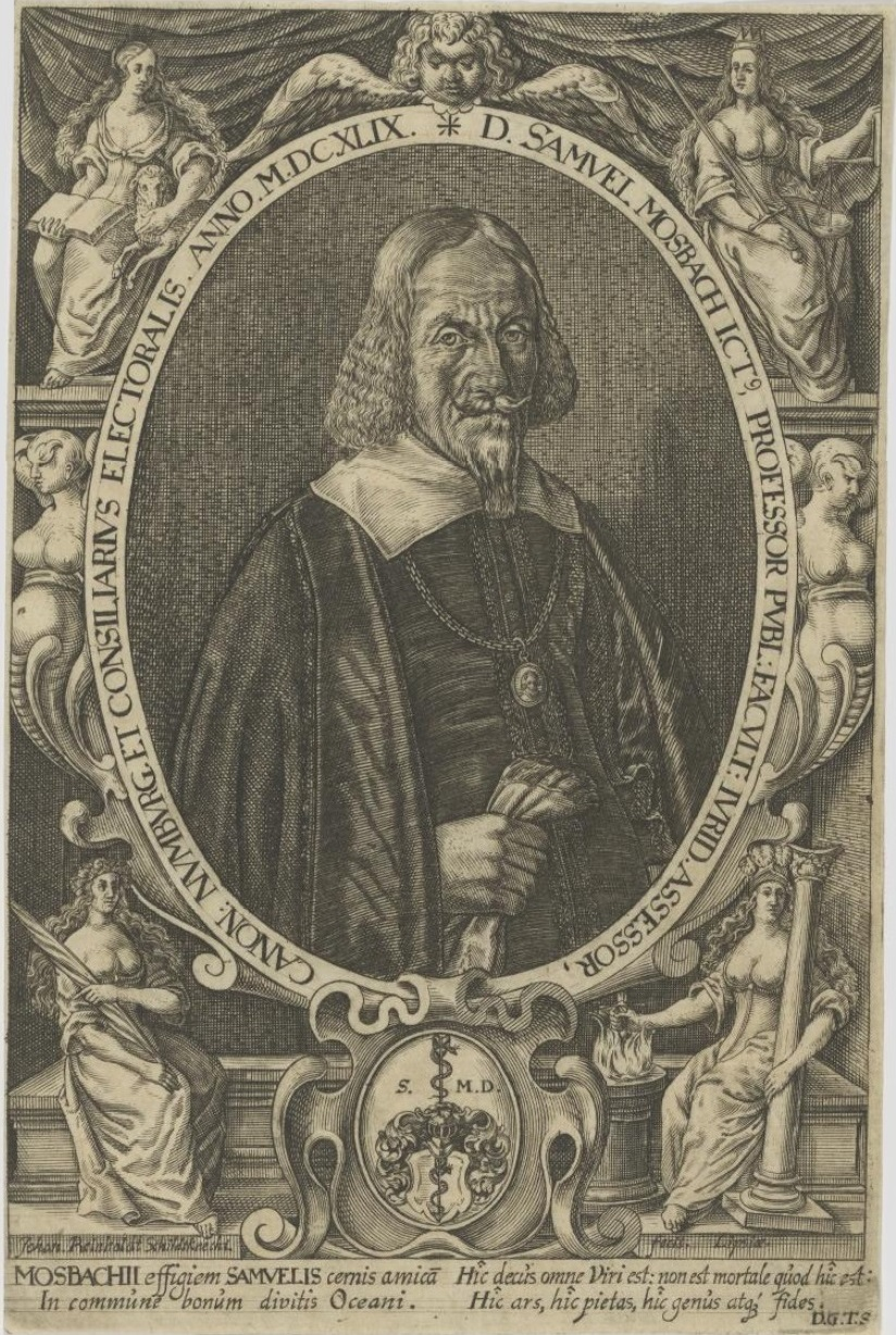 Samuel Mosbach sen. (1556-1603); Chancellor of Electorate of Saxony